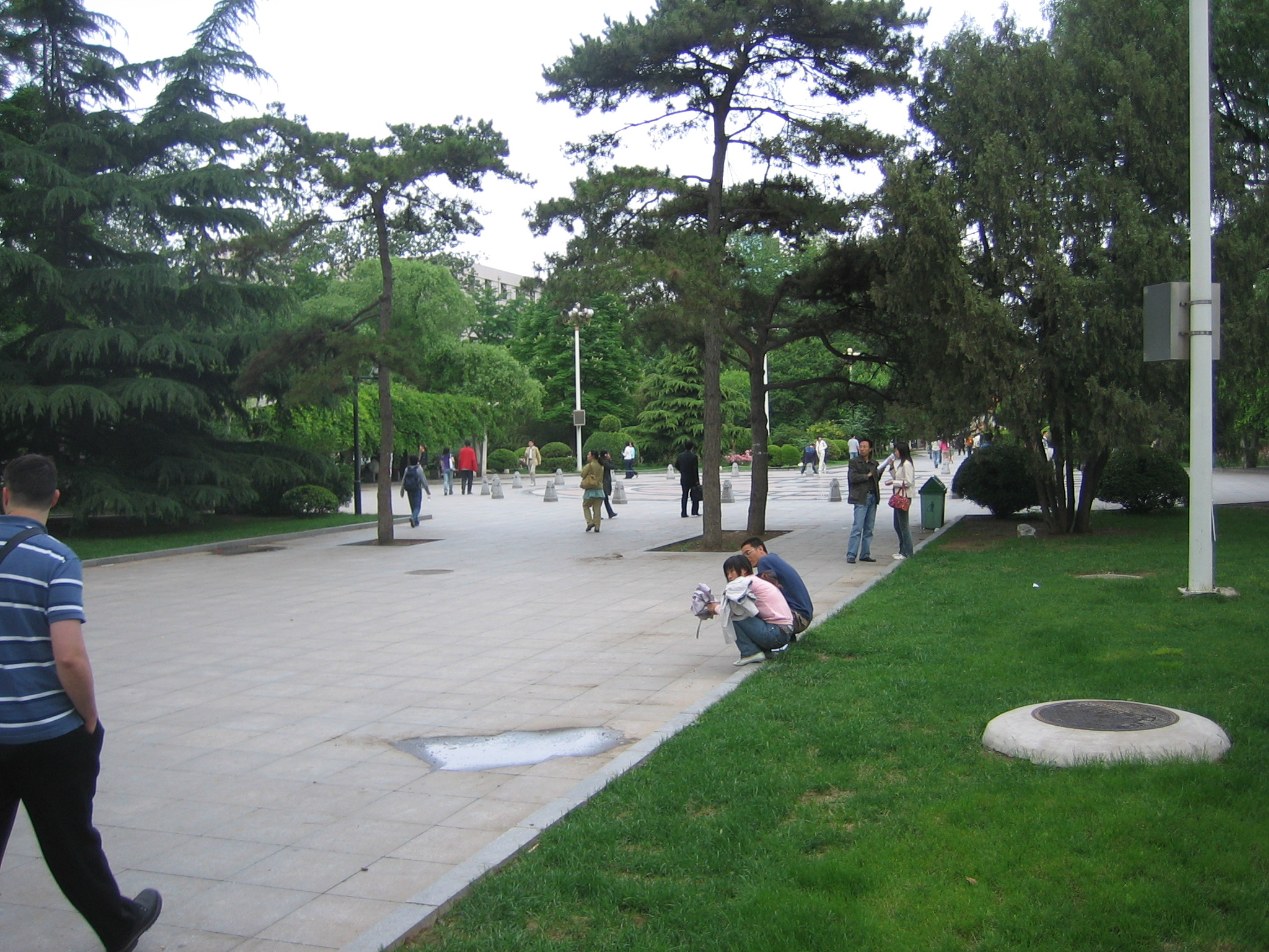 Diakiw, personal photo